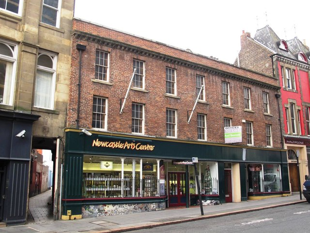 Newcastle Arts Centre, 67 Westgate Road, NE1